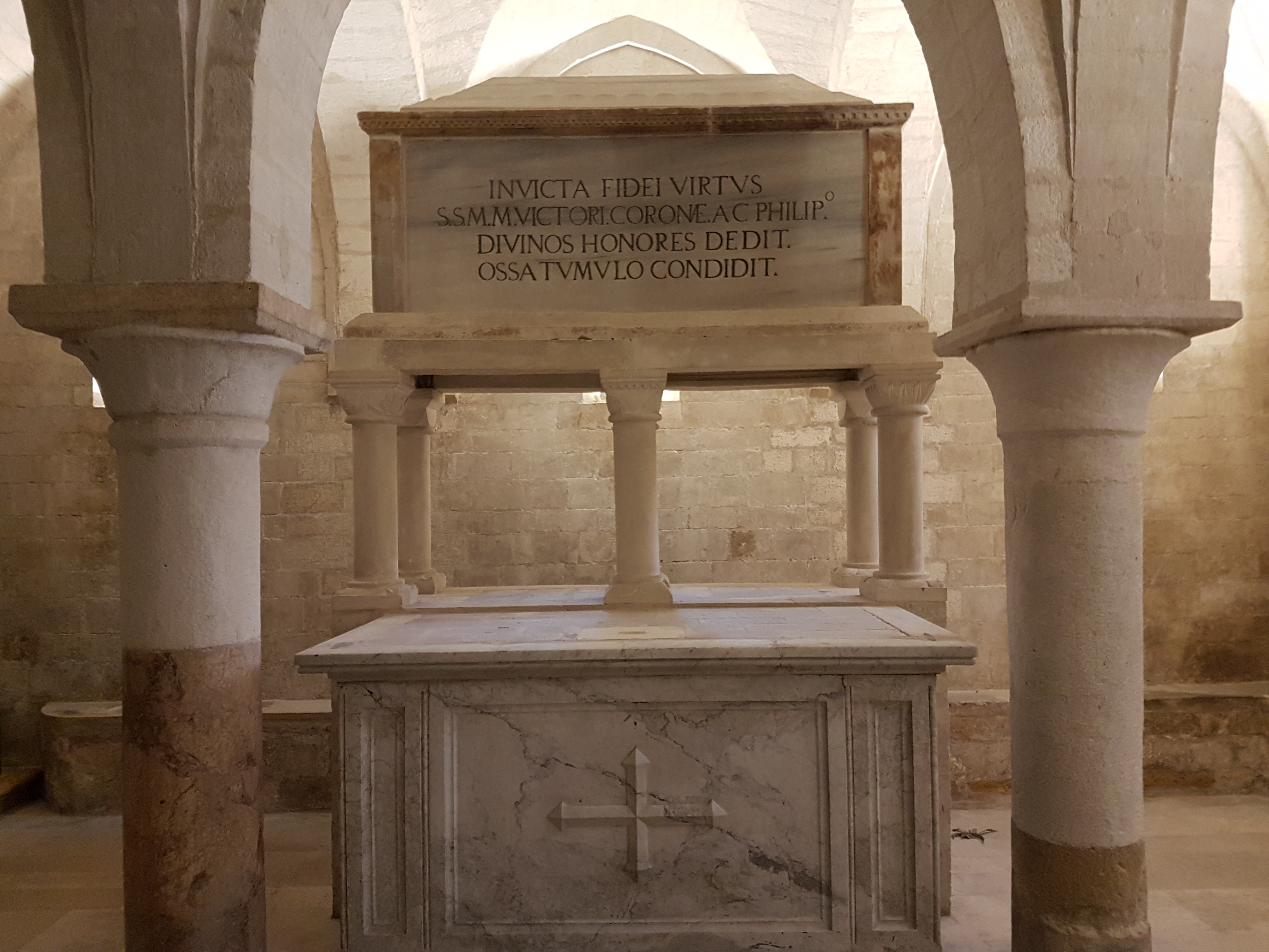 Tomb of St. Corona and St. Victor in the crypt of the St. Leopardus Dome in Osimo, Italy